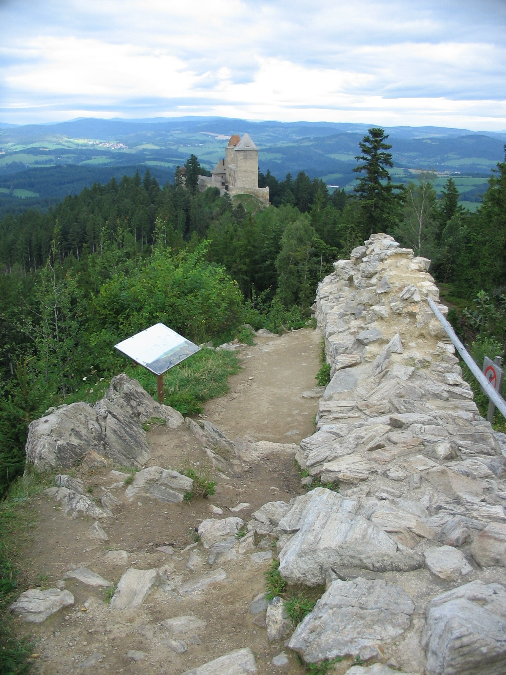 Pustý hrádek ("Empty Castle") and the castle Kašperk, Klatovy District, Czech Republic